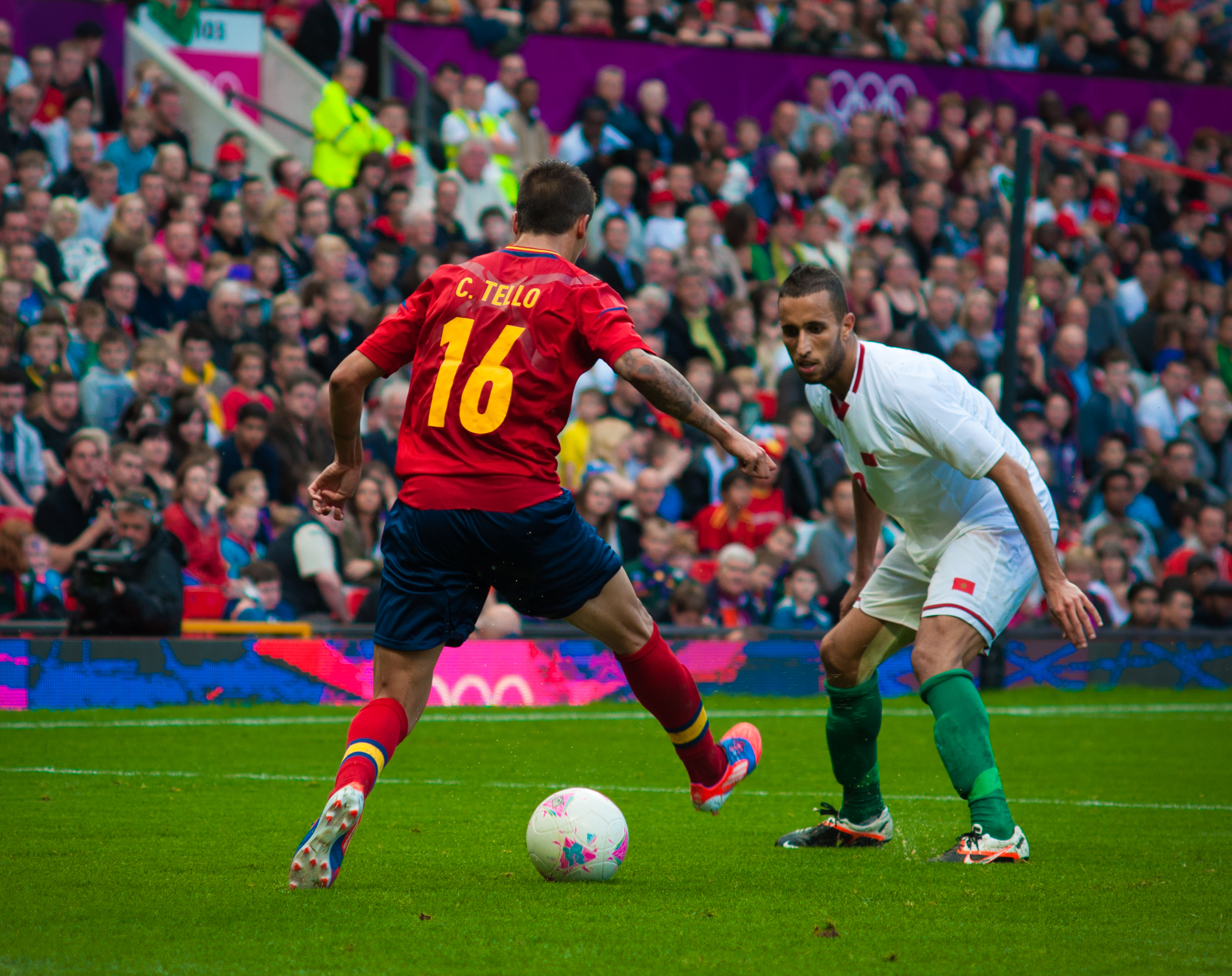 Spanish and Barcelona FC forward Cristian Tello playing in a Spain v. Morocco game at the 2012 Summer Olympics in Great Britain. (Cropped from origional)